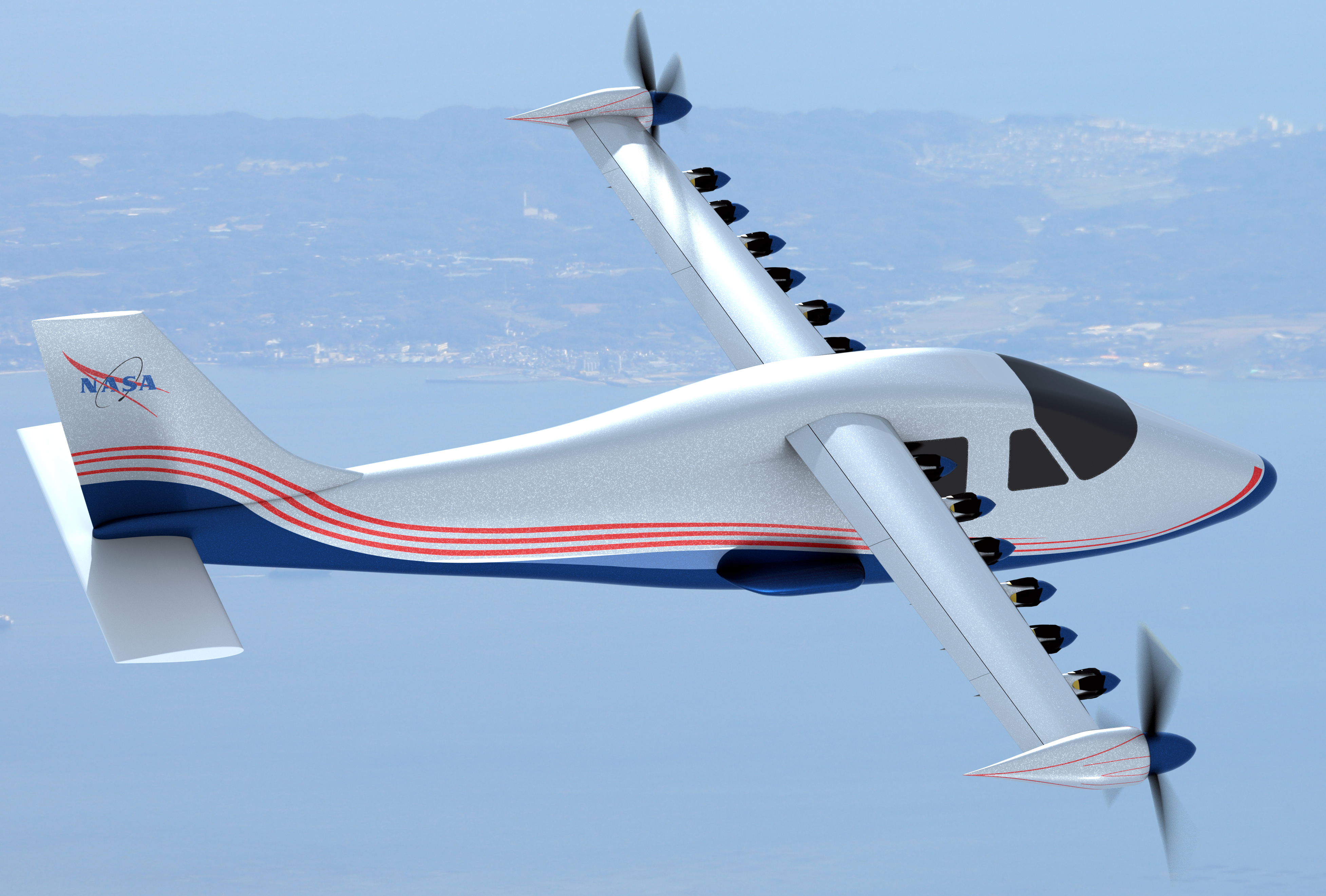 Artist's concept of NASA's X-57 Maxwell aircraft.